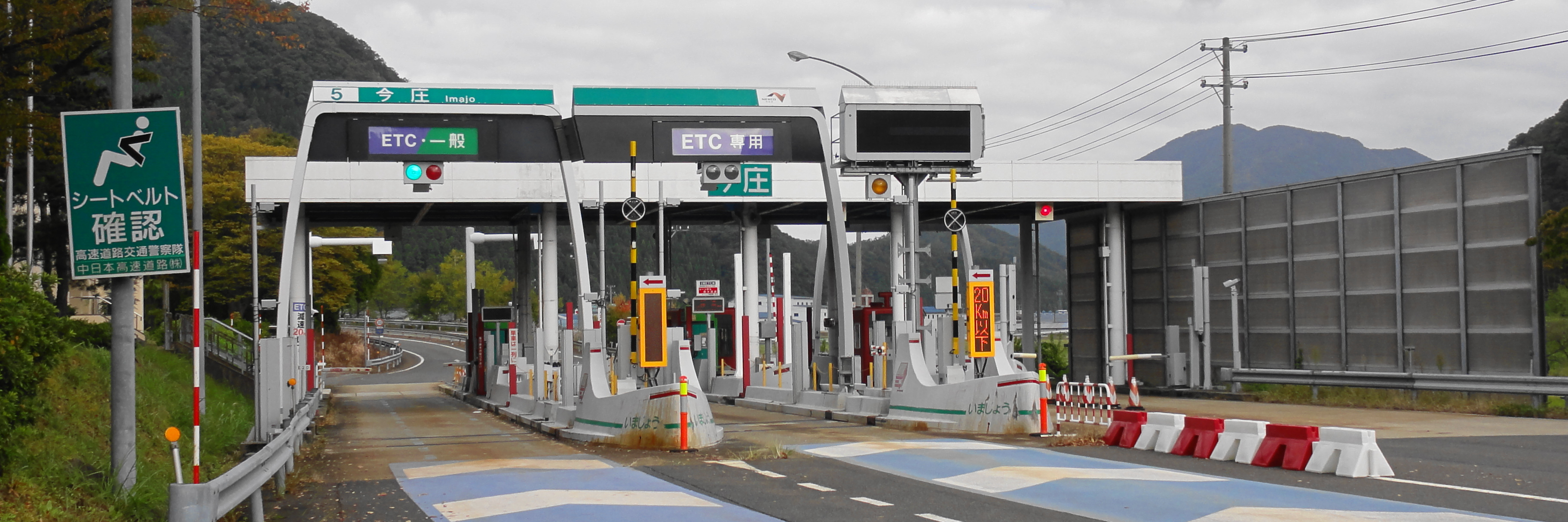 Imajo Inter Change, Fukui Prefecture, Japan